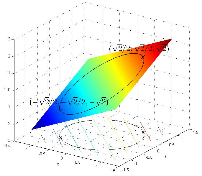 Fig. 3. Illustration of the constrained optimization problem.